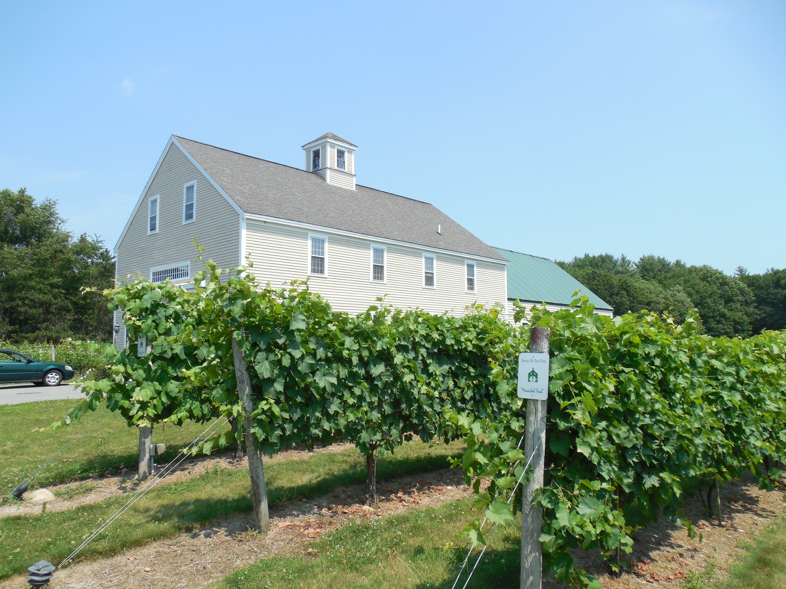 Jewell Towne Vineyards, Amesbury Massachusetts